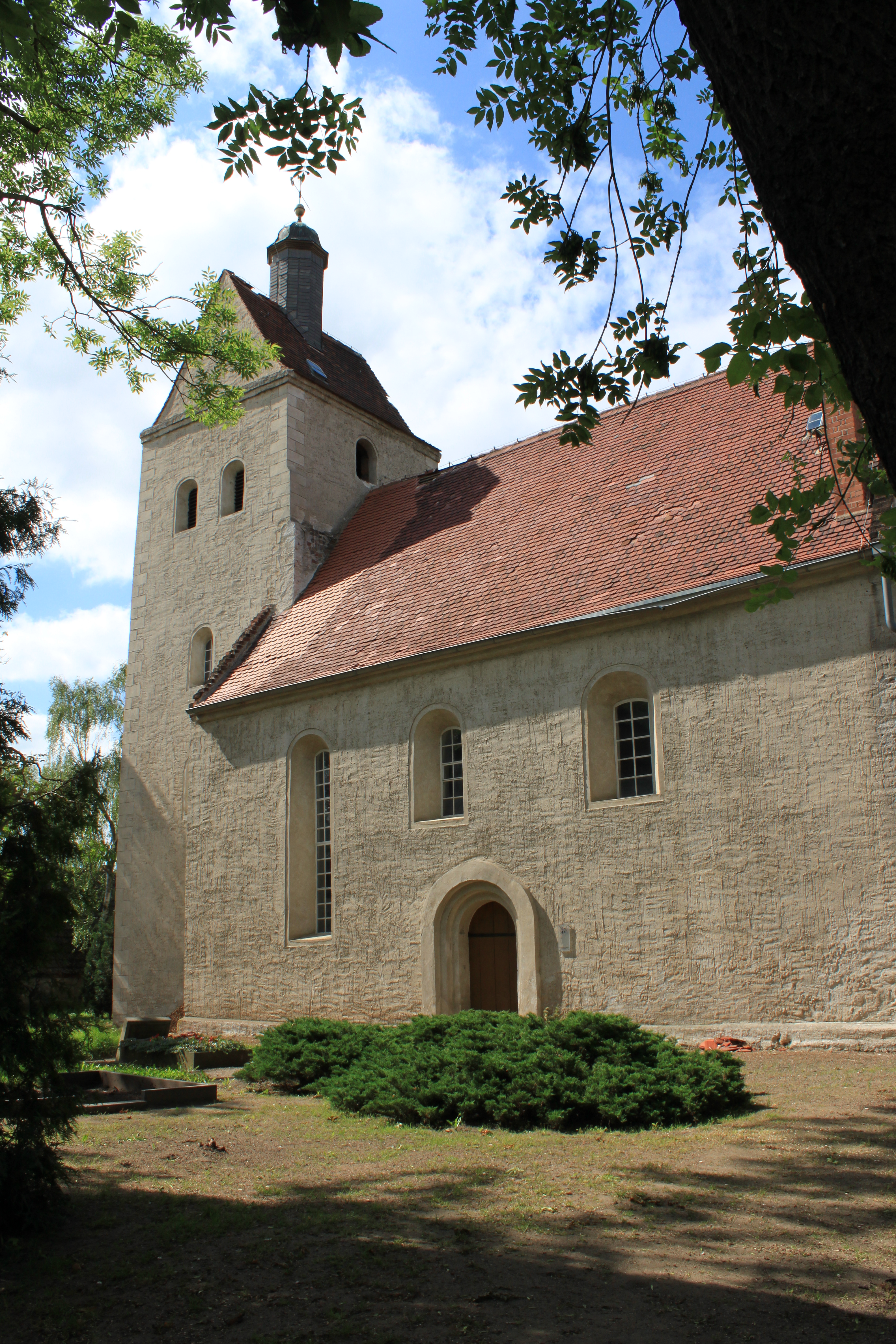 church in Boragk